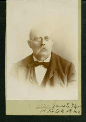 Title: James E. Flynn (Union veteran). Description: James E. Flynn (Union veteran). Place: Dates: 1897 Type(s): photo, Photograph Maker/Creator: Shores Subjects: mhm:id=P0083-2308 James E. Flynn James Flynn American Civil War photograph Grand Army of the Republic Ransom Post No 131 1897 Shores veteran Union soldier portrait man G.A.R. military fraternal organization GAR 1890s vertical black and white bust suit vest bow tie glasses mustache bald Civil War Identifier: PHO:52308 Permalink